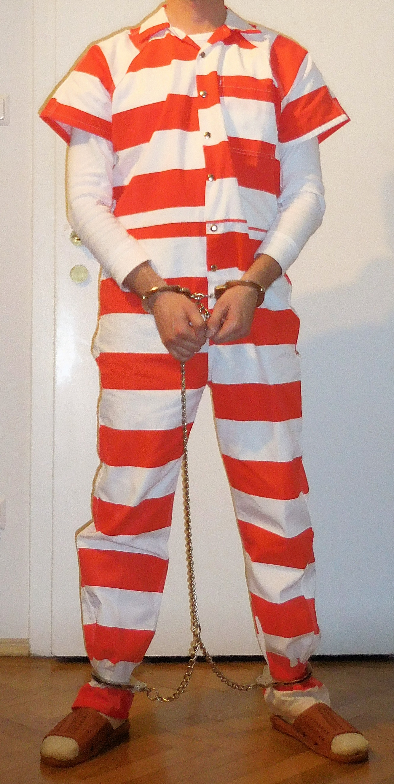 Prisoner in Smith & Wesson model 1850 transport restraints. These consist of a pair of S&W m-1 universal handcuffs, joined togehter with a pair of m-1900 leg irons by a connecting chain.